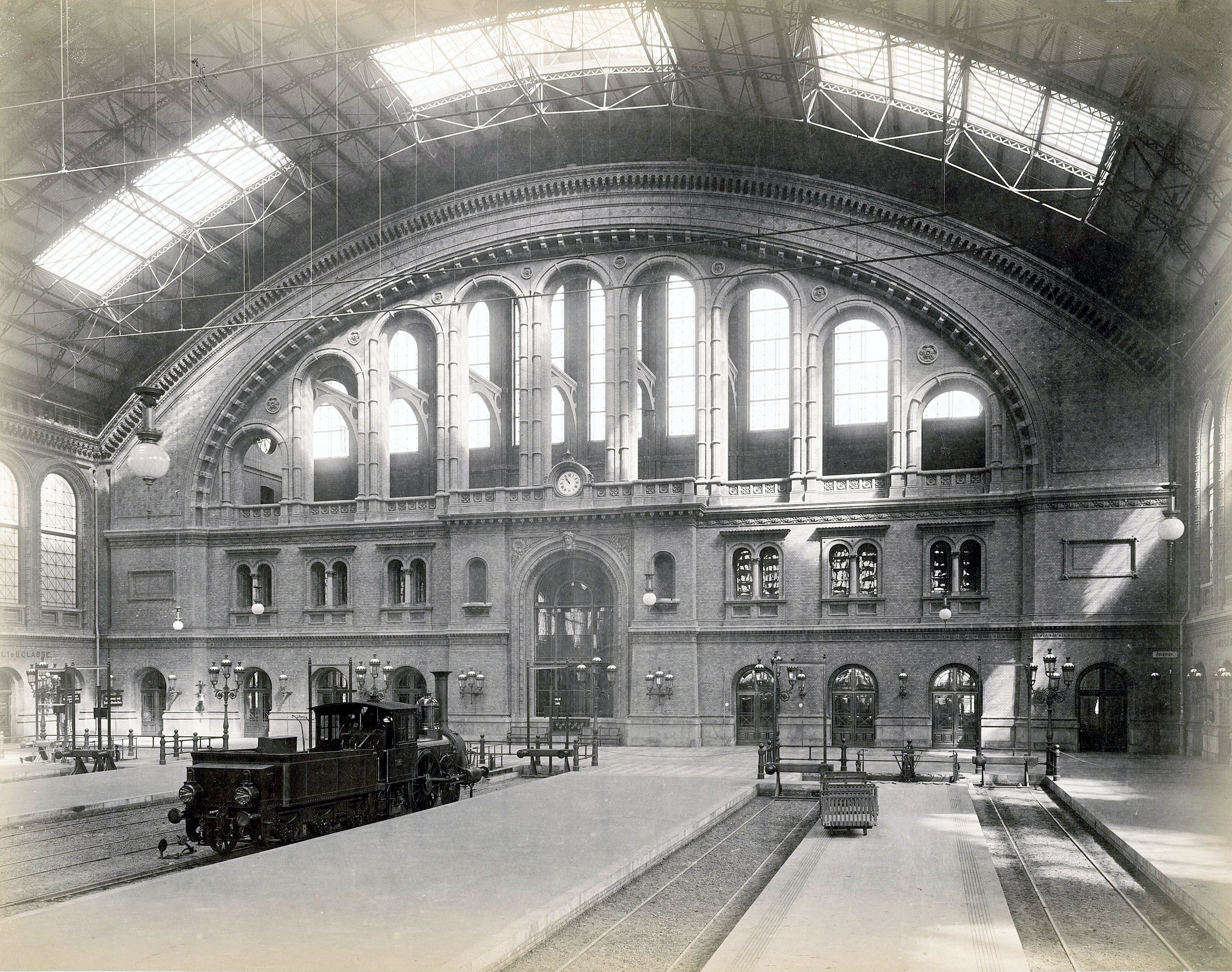 The railway platform at the head of the Anhalter Bahnhof in Berlin (now in Kreuzberg district), which is destroyed by now.